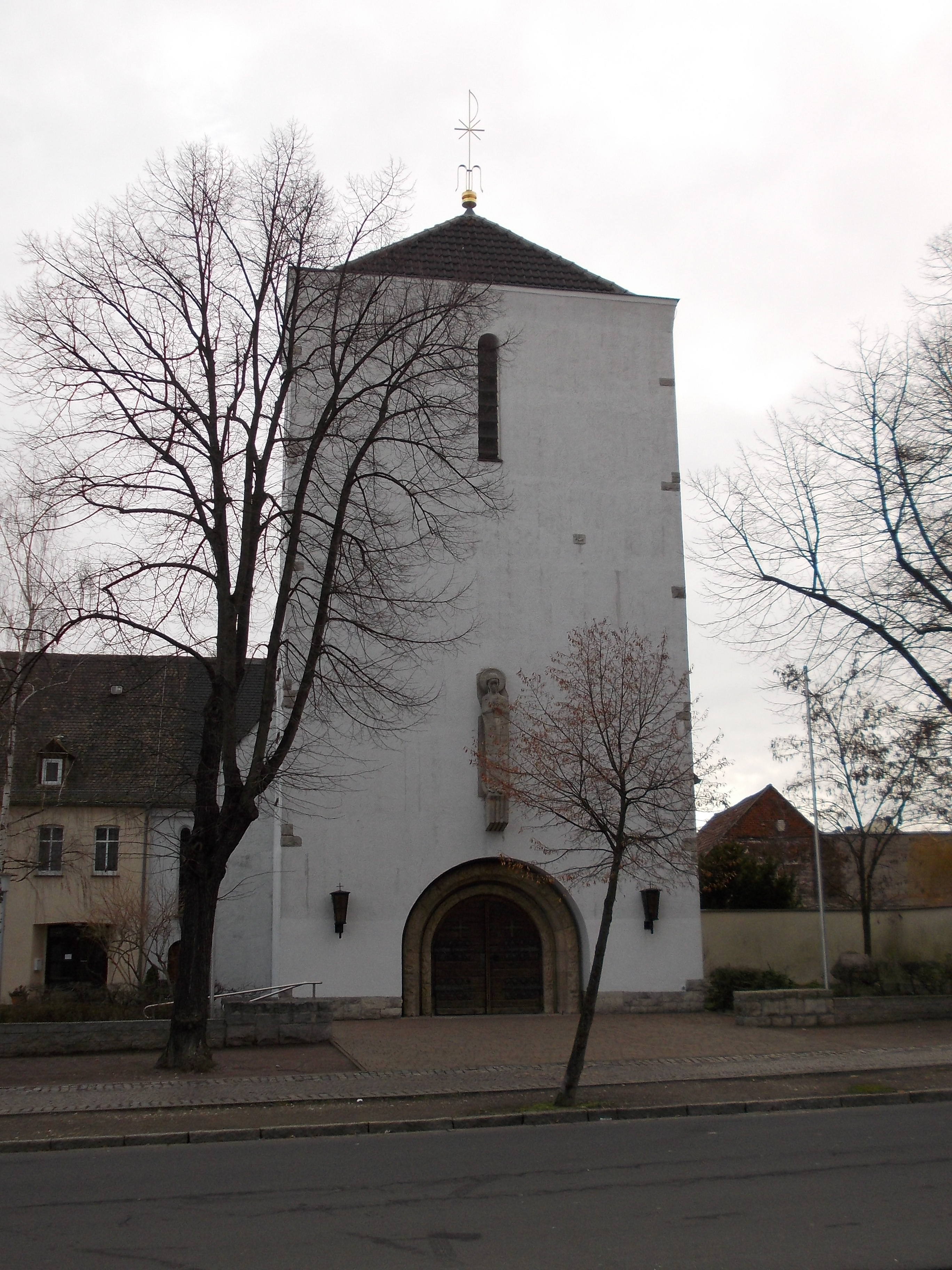 Roman Catholic St. Mary's Church in Delitzsch (Nordsachsen district, Saxony), owned and used by the St. Clara Parish